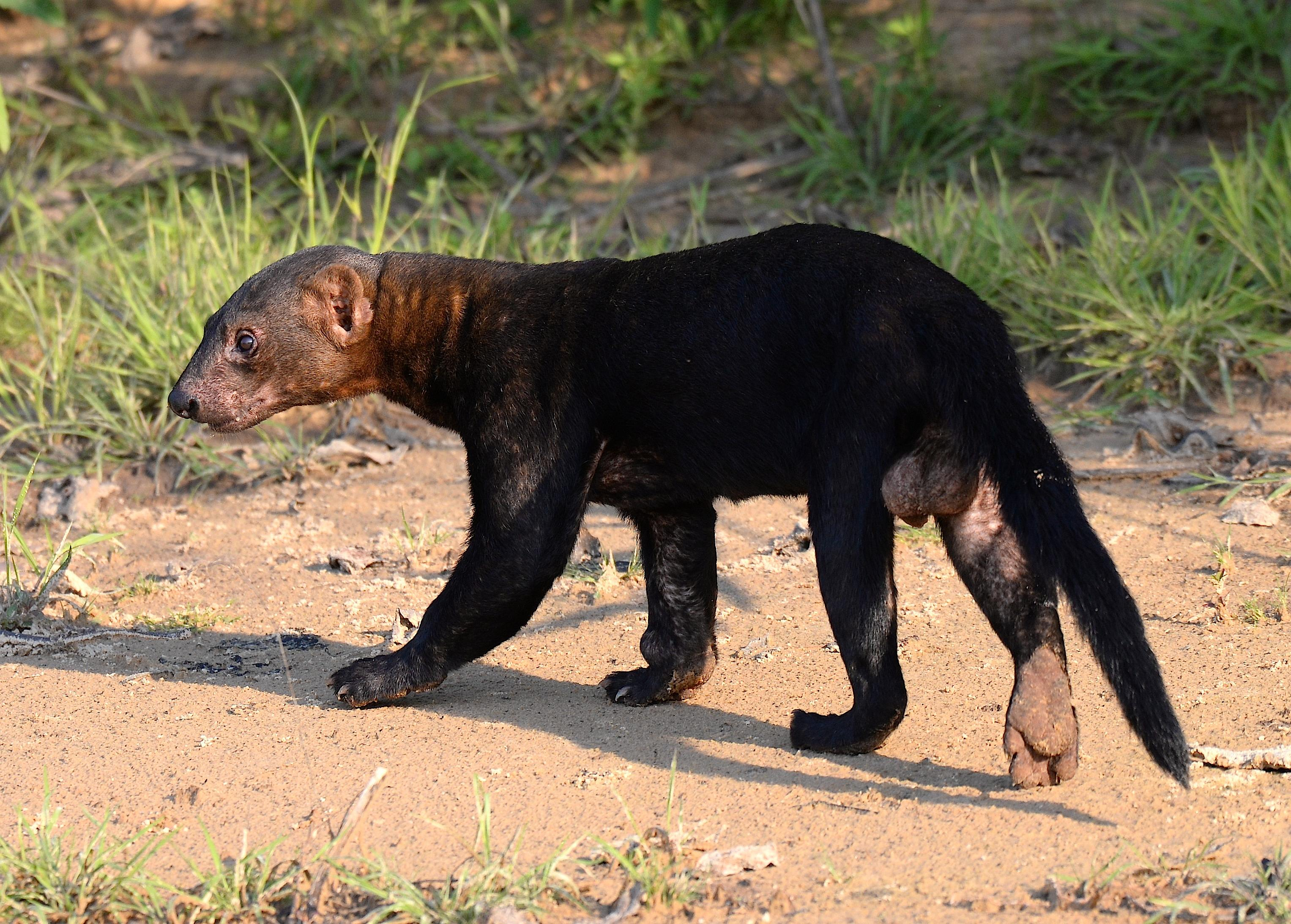 Eira barbara (Tayra), male, Pantanal Brazil, Sept 2016